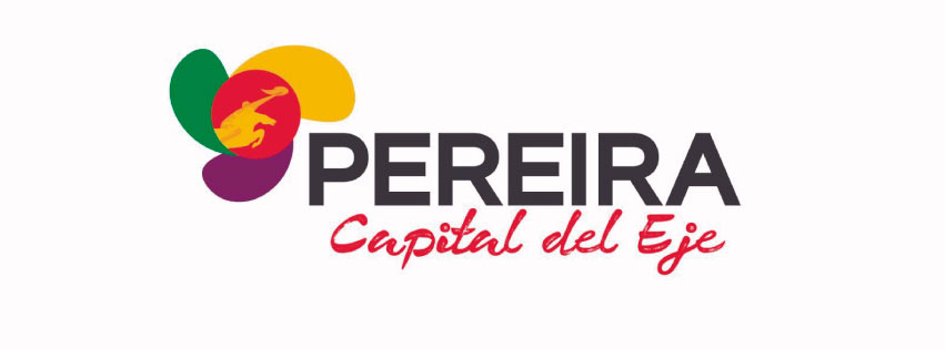 Pereira